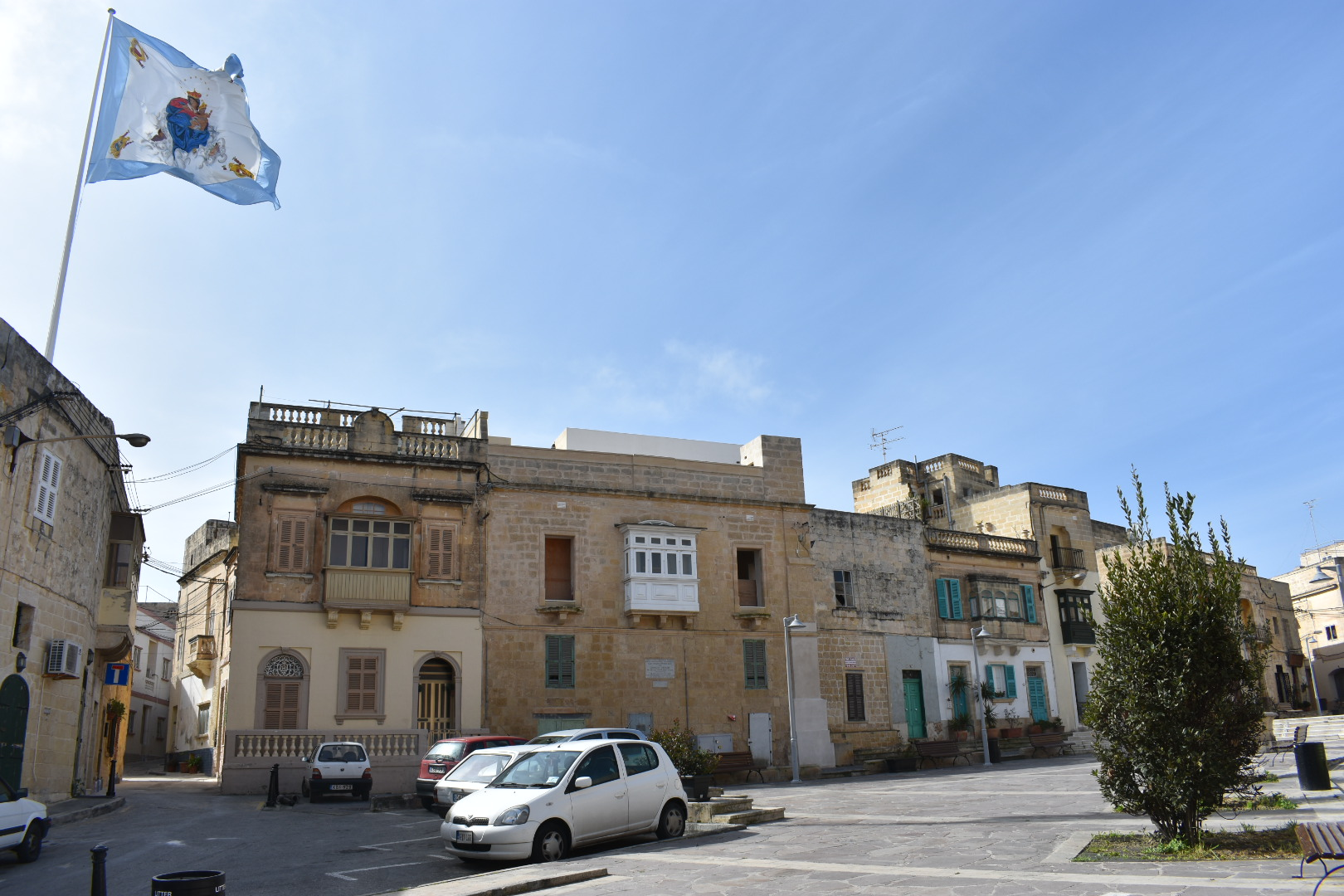 Żabbar